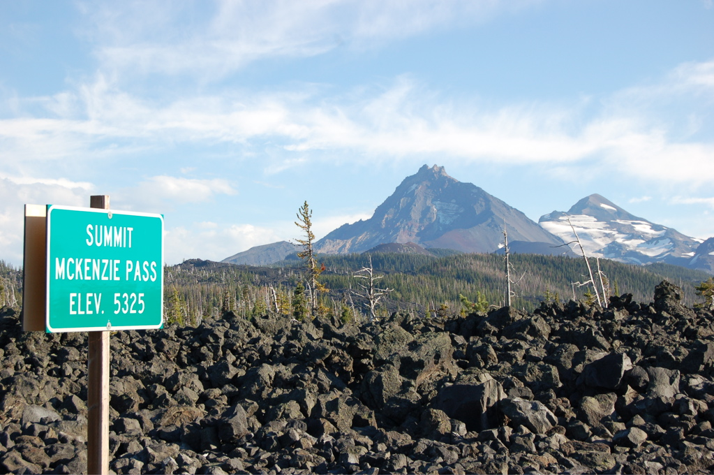 North Sister (left) and Middle Sister from McKenzie Pass in the Oregon Cascades, United States